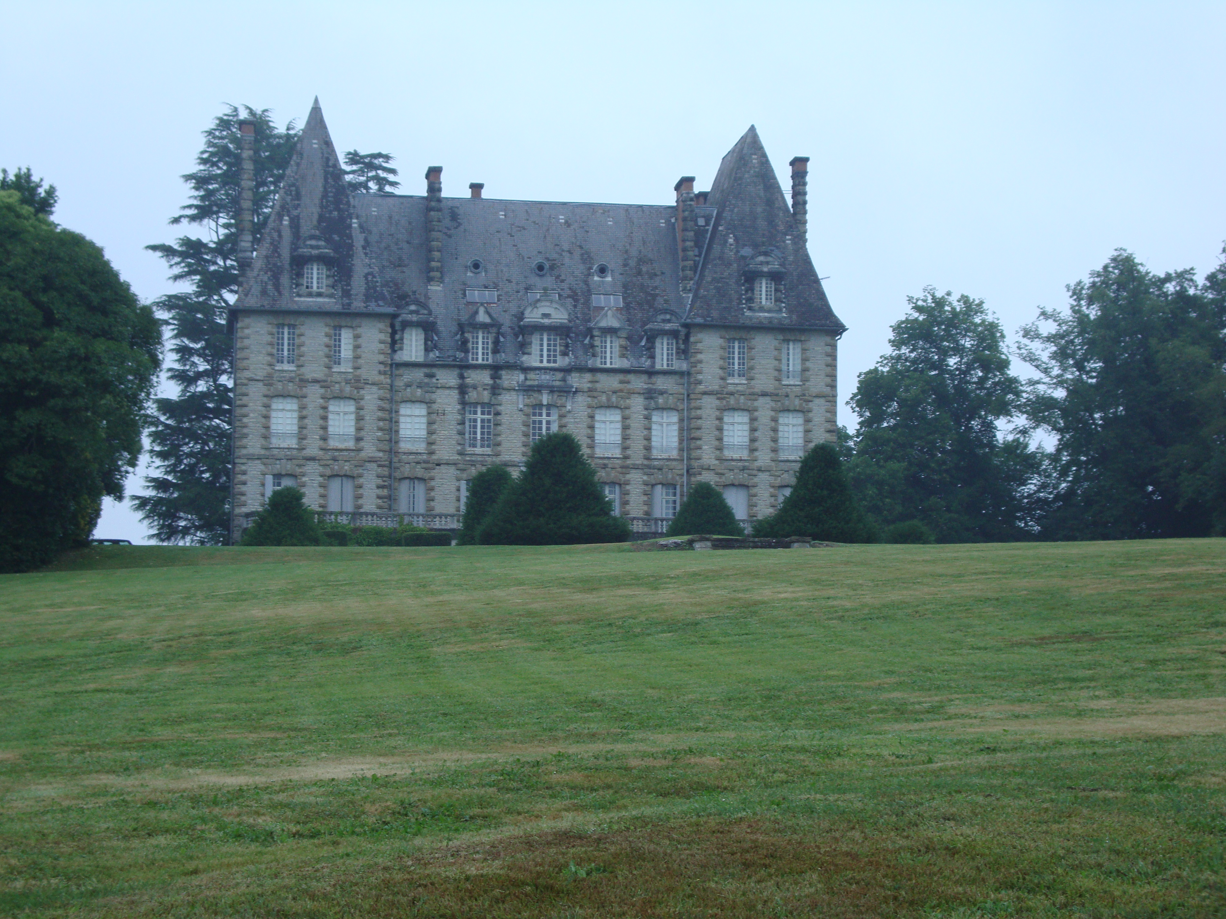 Etcharry (Pyr-Atl, Fr) the castle. In the castle was settles the center "Etcharry, Conseil, Développement et Formation" until 2016. Now it is a catholic school for boys.